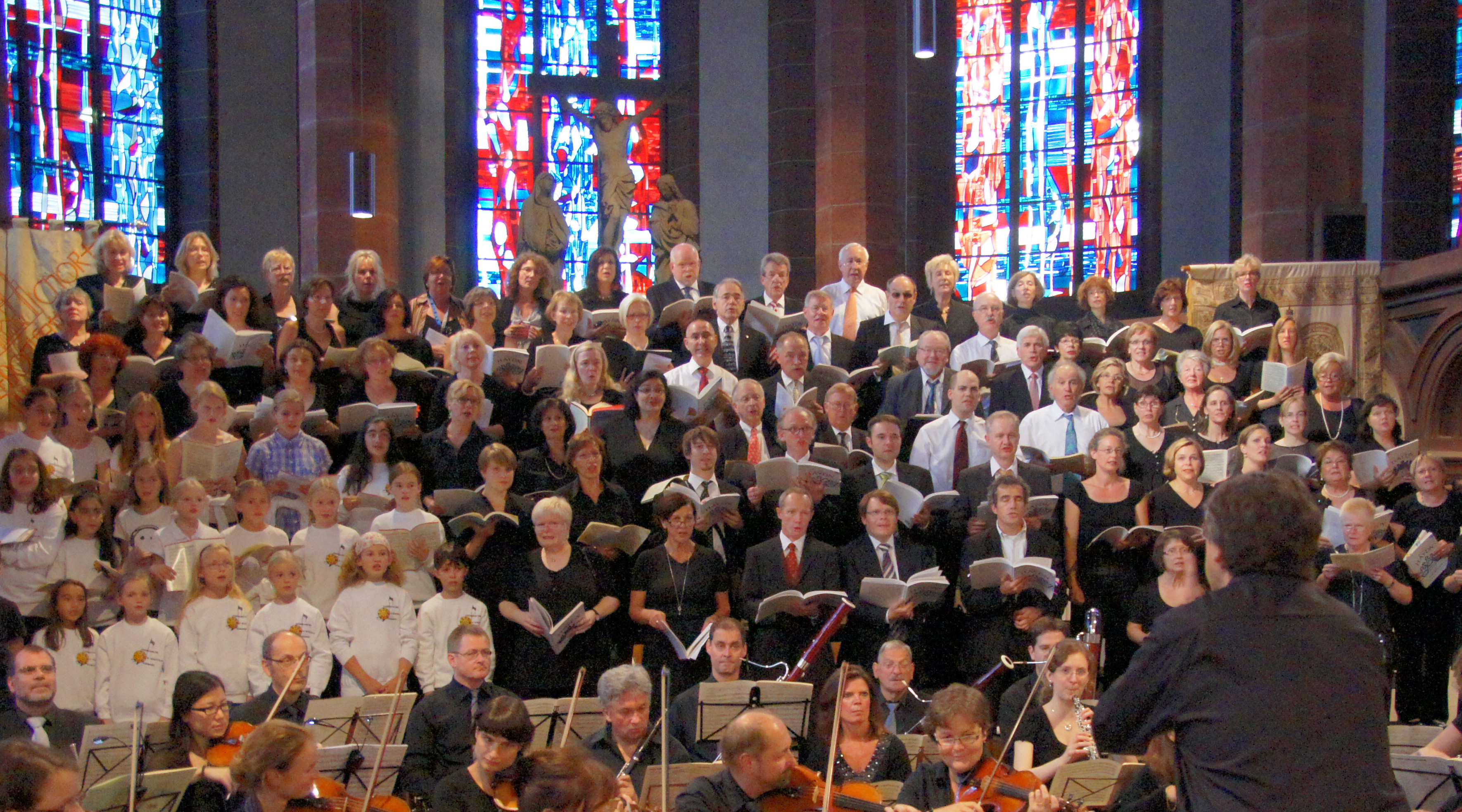 Chor und Kinderchor von St. Bonifatius in dress rehearsal for Haydn's Die Schöpfung 3 October 2011